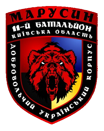 Sleeve patch of the 11th Replacement Battalion for the Ukrainian Volunteer Corps (UVC)